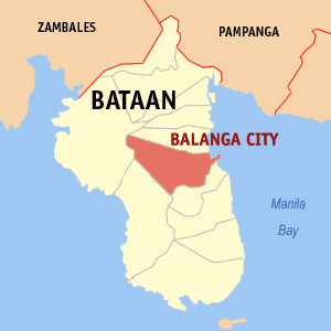 Map of Bataan showing the location of Balanga